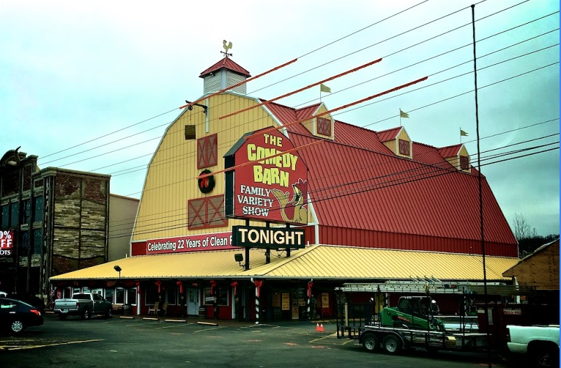 The Comedy Barn Theater is the oldest clean comedy variety show in the world.